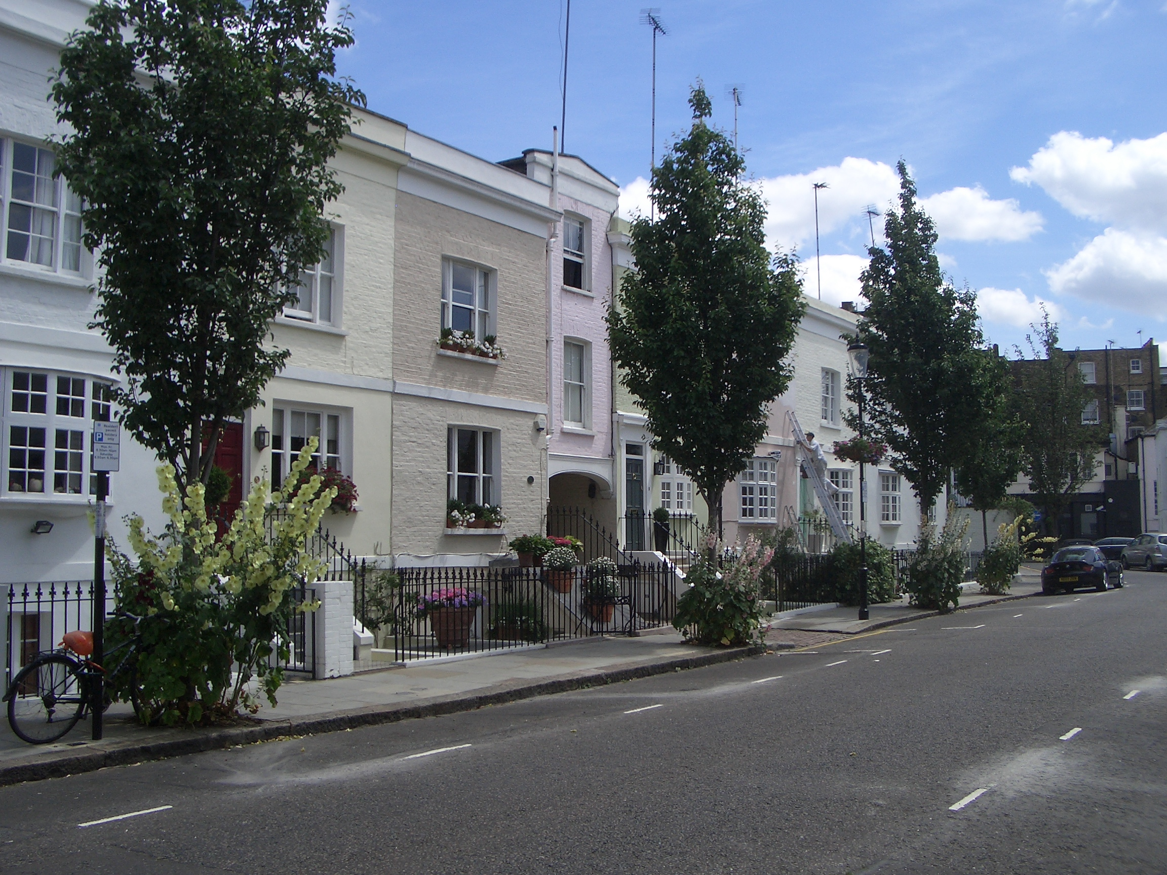 Picture of Wallgrave road, Kensington